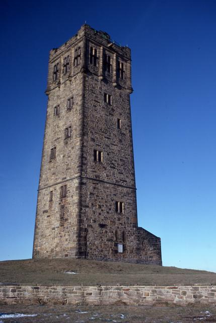 Image of The Victoria Tower overlooking Huddersfield